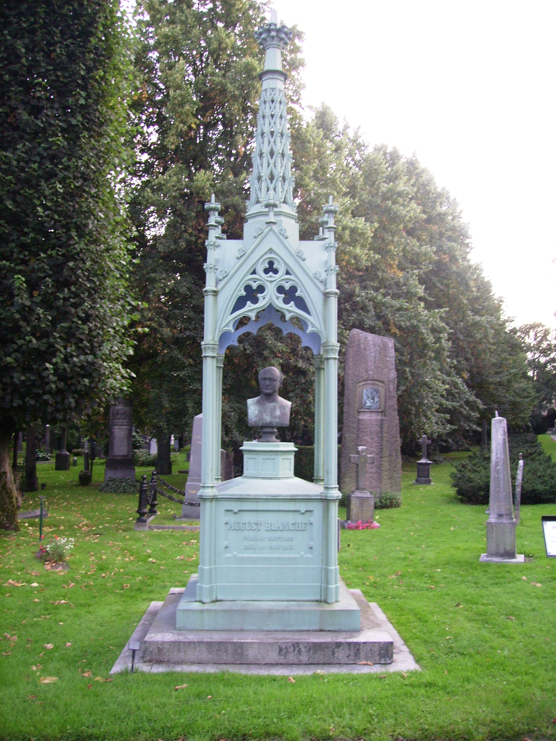 Picture of August Blanche's grave at Norra begravningsplatsen in Stockholm